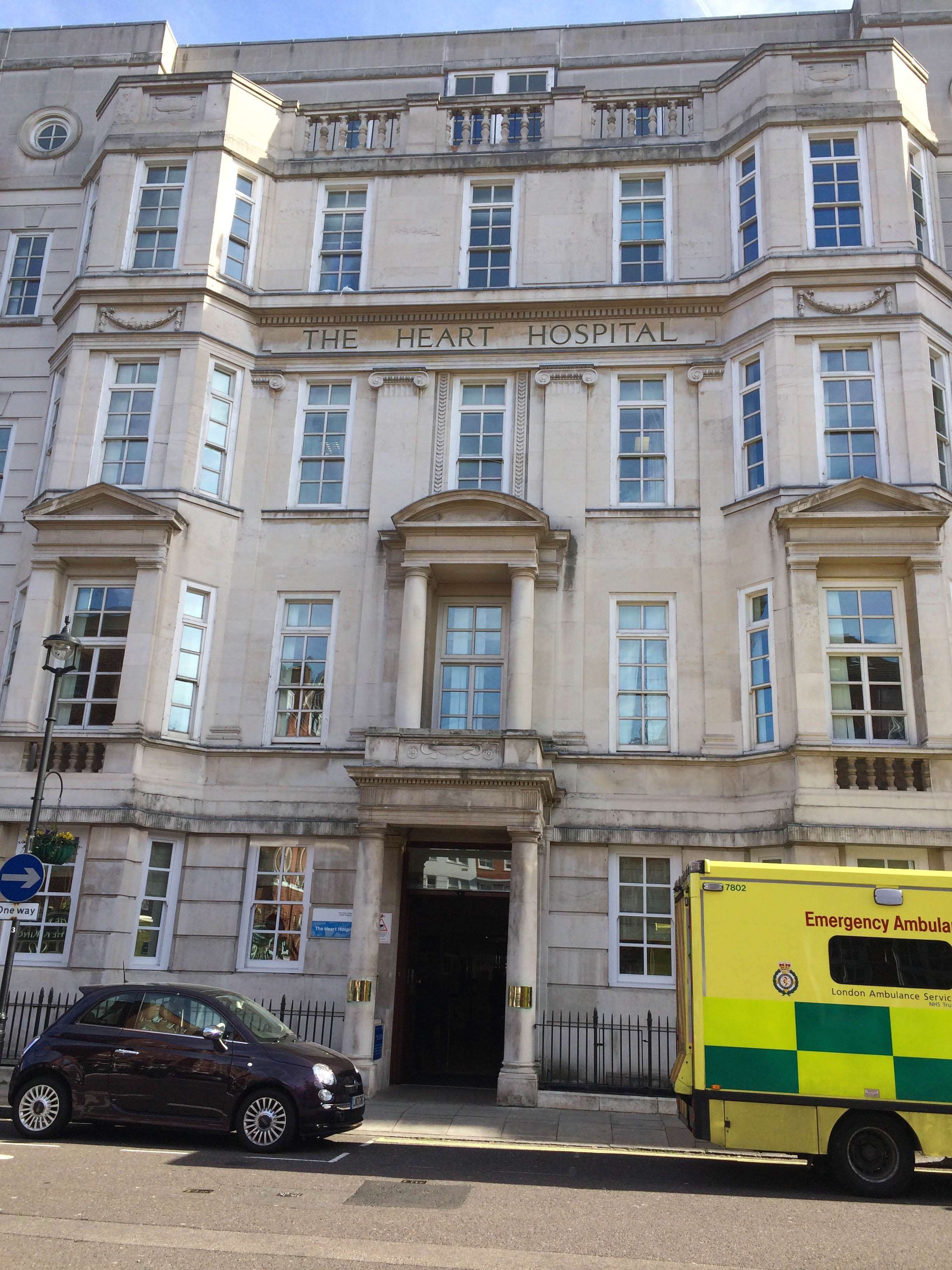 The Heart Hospital in Marylebone, London. Due to close and merge into Barts.